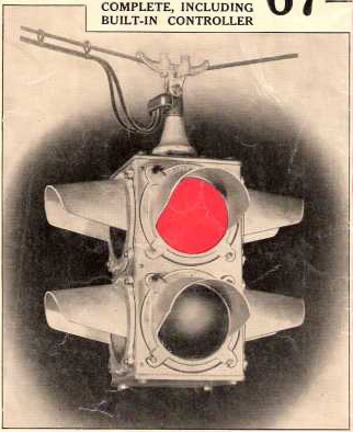 W. S. Darley & Co. C-810 two color traffic signal